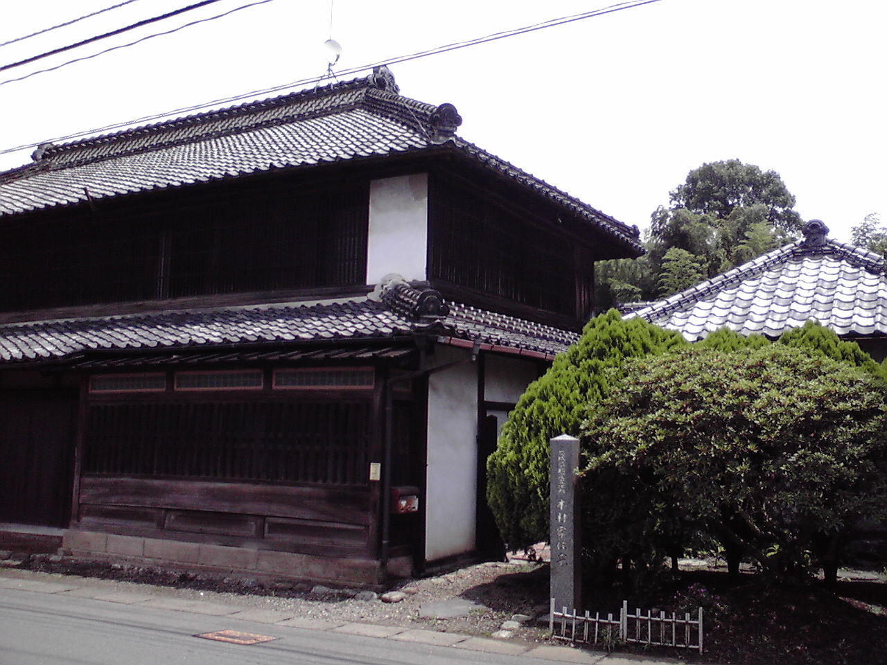 This is a historical-worthy house in Kasumigaura, Ibaraki, Japan.